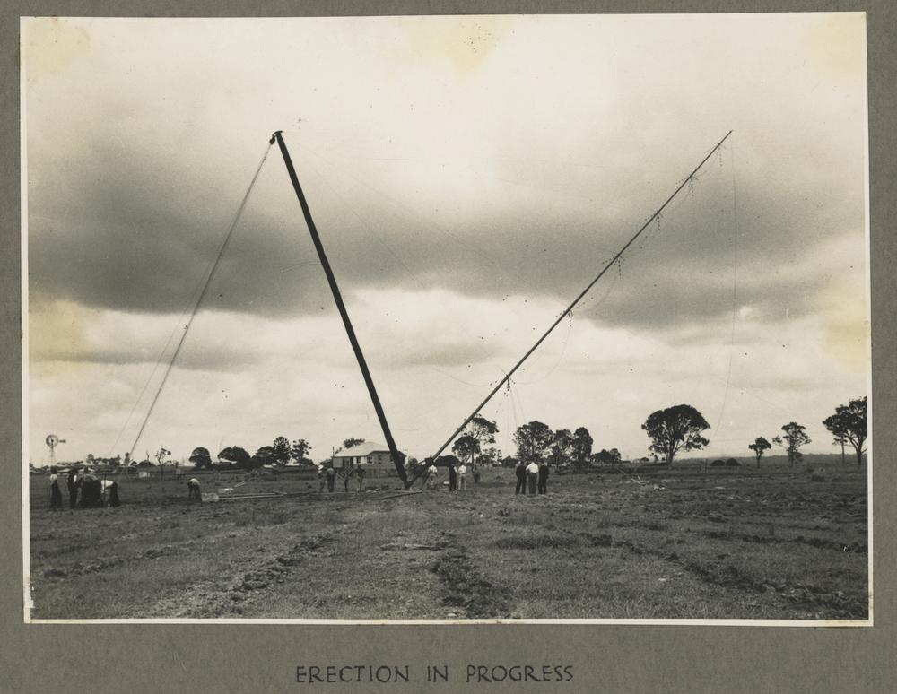 Erection of the Bald Hills radio transmitter, 1942. As a result of Japan's entry into World War II, and anxiety for Australia's security, it was felt that a new transmitting aerial needed to be constructed to replace the city aerials which were on the roof of strategic city buildings. The new site chosen was the Bald Hills transmitter site, one mile to the north of the Bald Hills Village. It was designed by Alf Howard and Vernon Kenna, the divisional engineer, PMG's broadcast construction department. (Description supplied with photograph.).